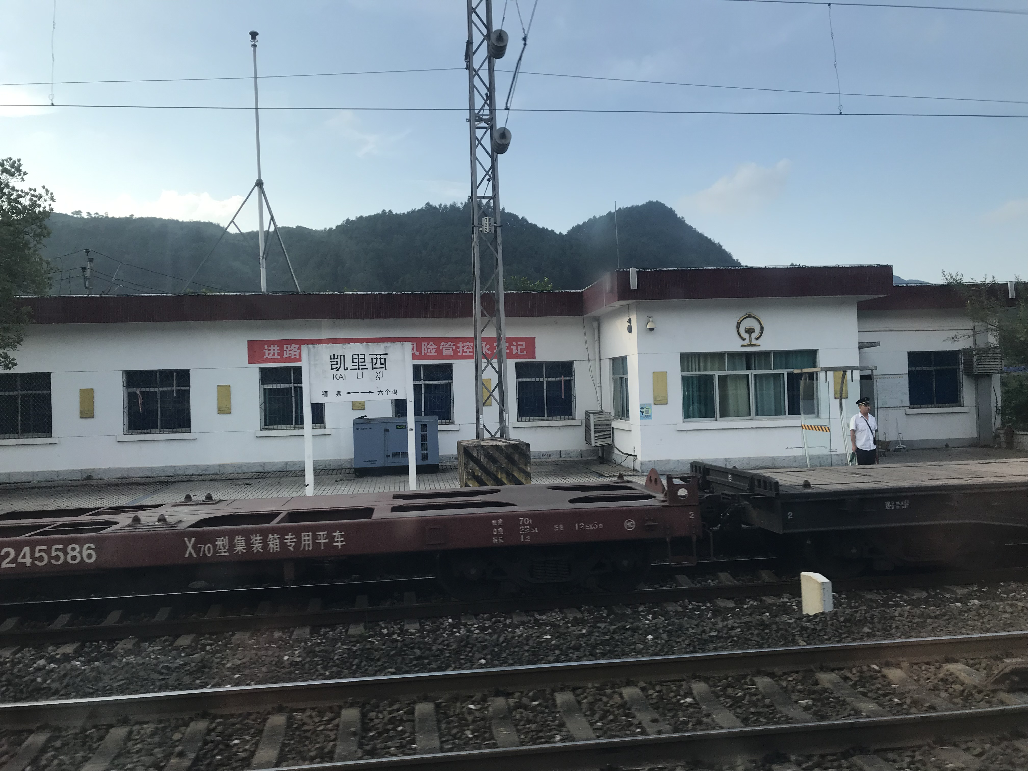 201908 Nameboard and Conductor of Kailixi Station